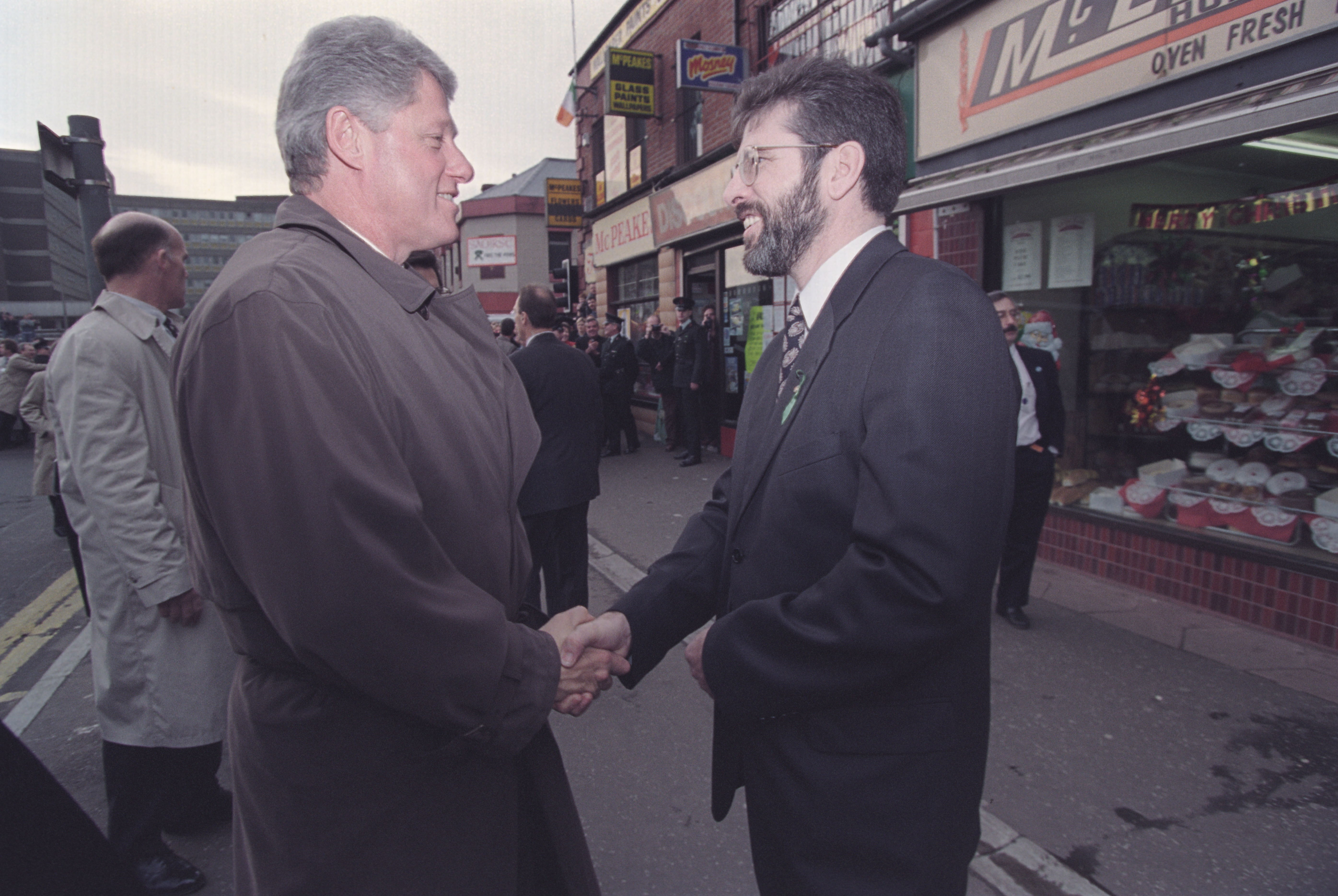 President Bill Clinton greets Gerry Adams outside a business in East Belfast.